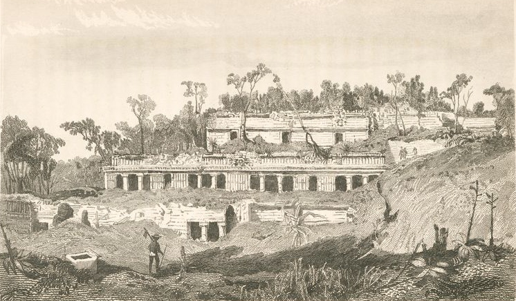 Maya site of Sayil, Yucatan. The Palace. 1841 view by Frederick Catherwood. Note: Original refers to site under the name "Zayi".